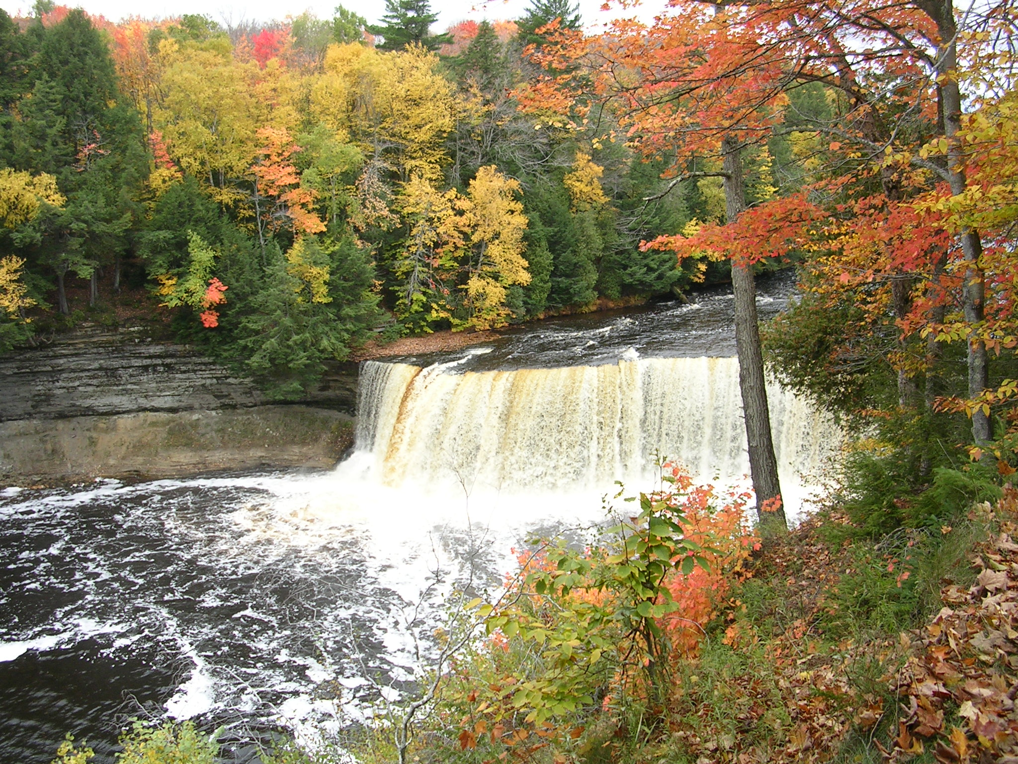 Tahquamenon Falls, Upper Peninsula, Michigan